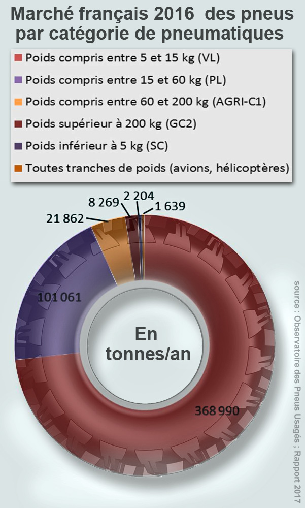 Graphic presenting the market tires (placing on the market) in 2016 in France, each color representing a type of tire. The figures are given in tons/year. This "placing on the market" has been increasing steadily for decades. This (french) data comes from the Annual Synthesis of the Used Pneumatic (UP) Industry - Data 2016 | Deloitte Sustainable Development, Katherine SALES, Philippe KUCH, Otto KERN. ADEME, Karine FILMON. October 2017. Synthesis of the Annual Report of the Observatory of Used Tires. (10 pages), formatting with a tire design from Wikimedia as